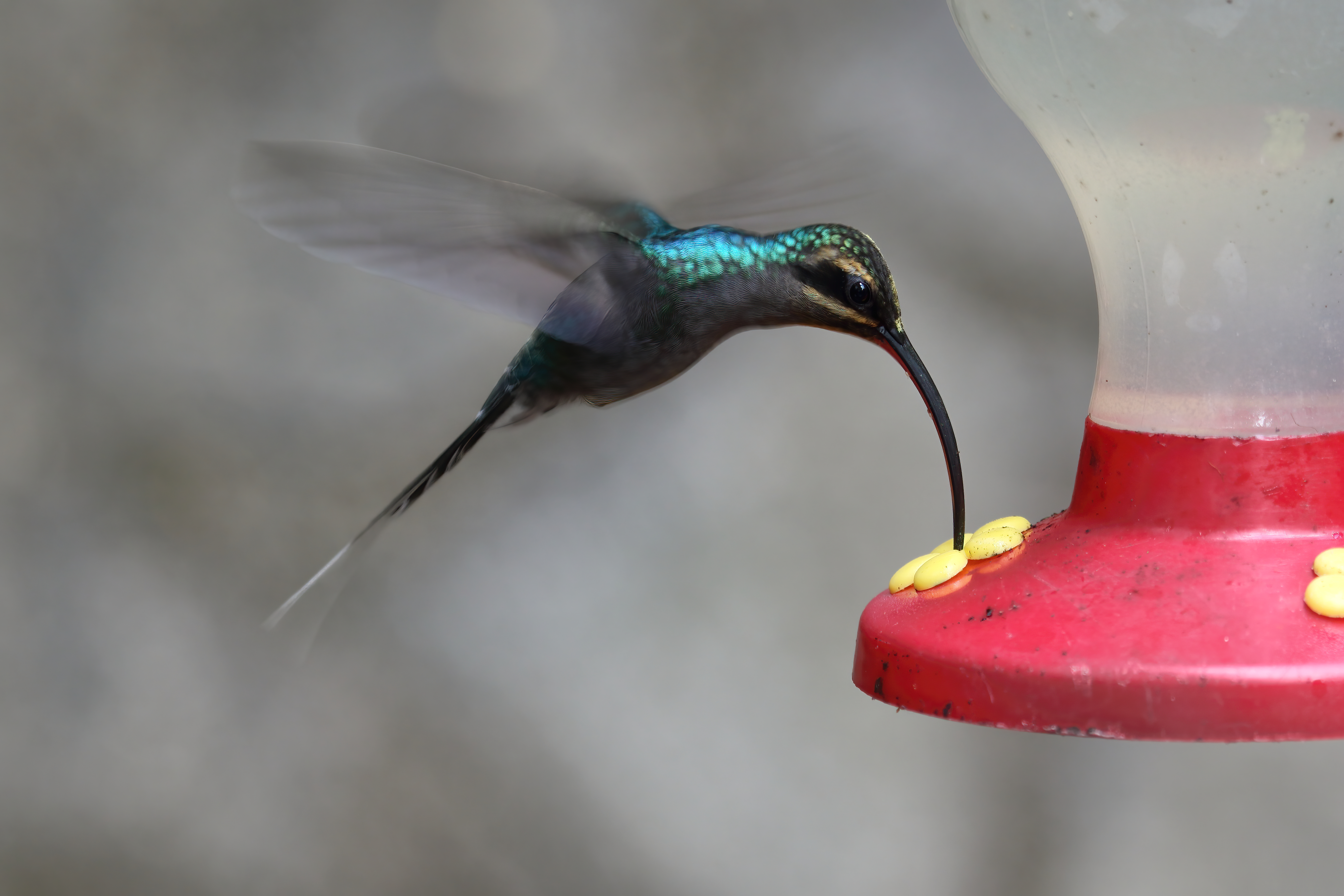 Green hermit, Selvatura Adventure Park, Monteverde, Costa Rica.